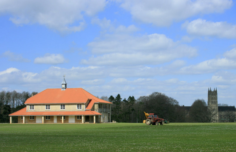 2010 : Cricket pavilion and Abbey Church tower